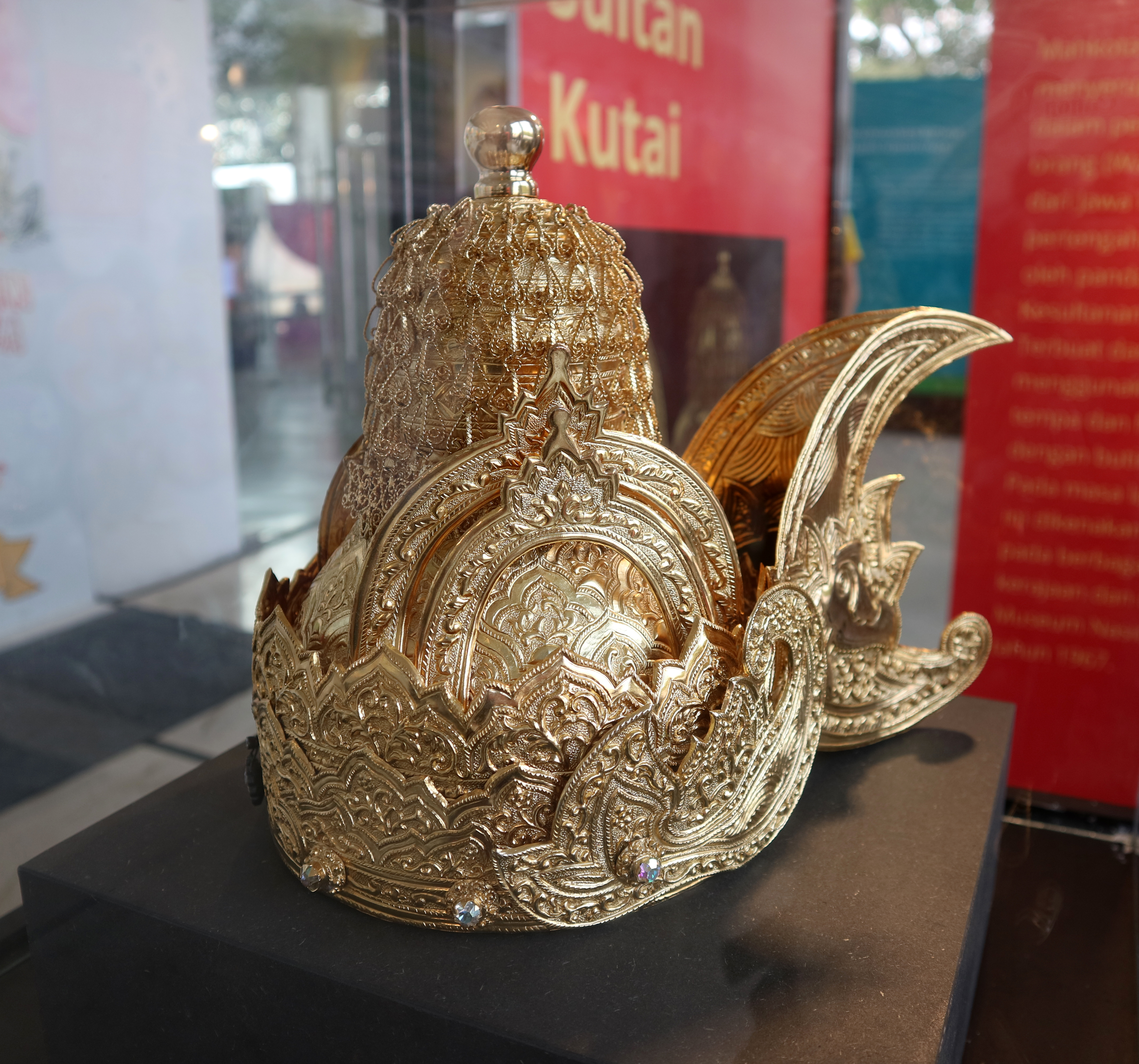 The Crown of Kutai Sultan, collection of the National Museum of Indonesia, Jakarta. The golden crown that symbolizing the power and authority of the King of Kutai, is part of the regalia of the Sultanate of Kutai Kartanegara, East Kalimantan, Indonesia. This crown was first used during the reign of Sultan Muhammad Sulaiman, reign 1845-1899. This crown is 30 cm long, 25 cm wide, and 12 cm high. Made in the mid-19th century, and originated from Kutai, East Kalimantan. This crown is designed in the classical Javanese style, which resembles a king's crown in the Wayang Wong (Wayang Orang) performance in Java. This crown was made in the mid-19th century by a goldsmith from the Kutai Sultanate itself. This crown is made of gold with forging and filigree techniques, decorated with diamonds. In the past the crown was worn by the Sultan at various royal events. The Sultanate of Kutai handed over this crown to the Indonesian National Museum in 1967. Exhibited by the Indonesian National Museum in Pekan Kebudayaan Nasional 2019 (2019 National Cultural Week), 7-13 October 2019, Istora Senayan, Jakarta.